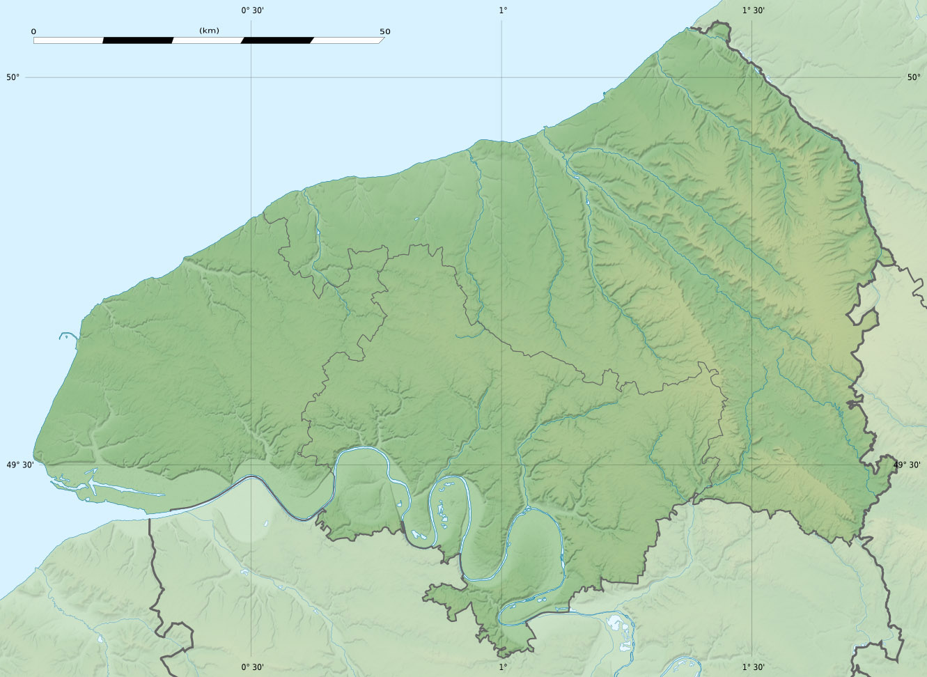 Blank physical map of the department of Seine-Maritime, France, for geo-location purpose.